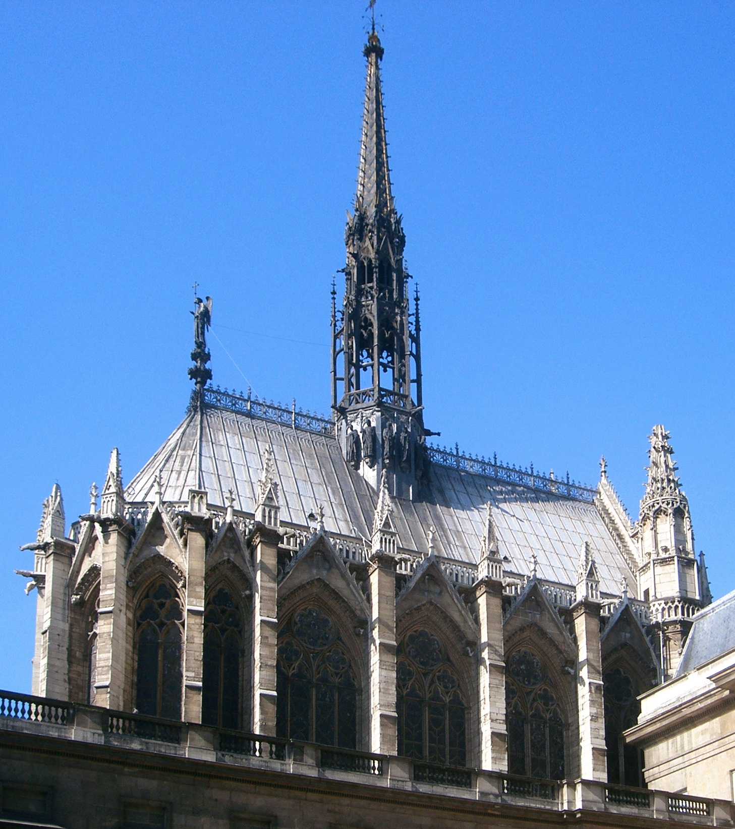 Sainte-Chapelle in Paris. Built around 1240. View from north.